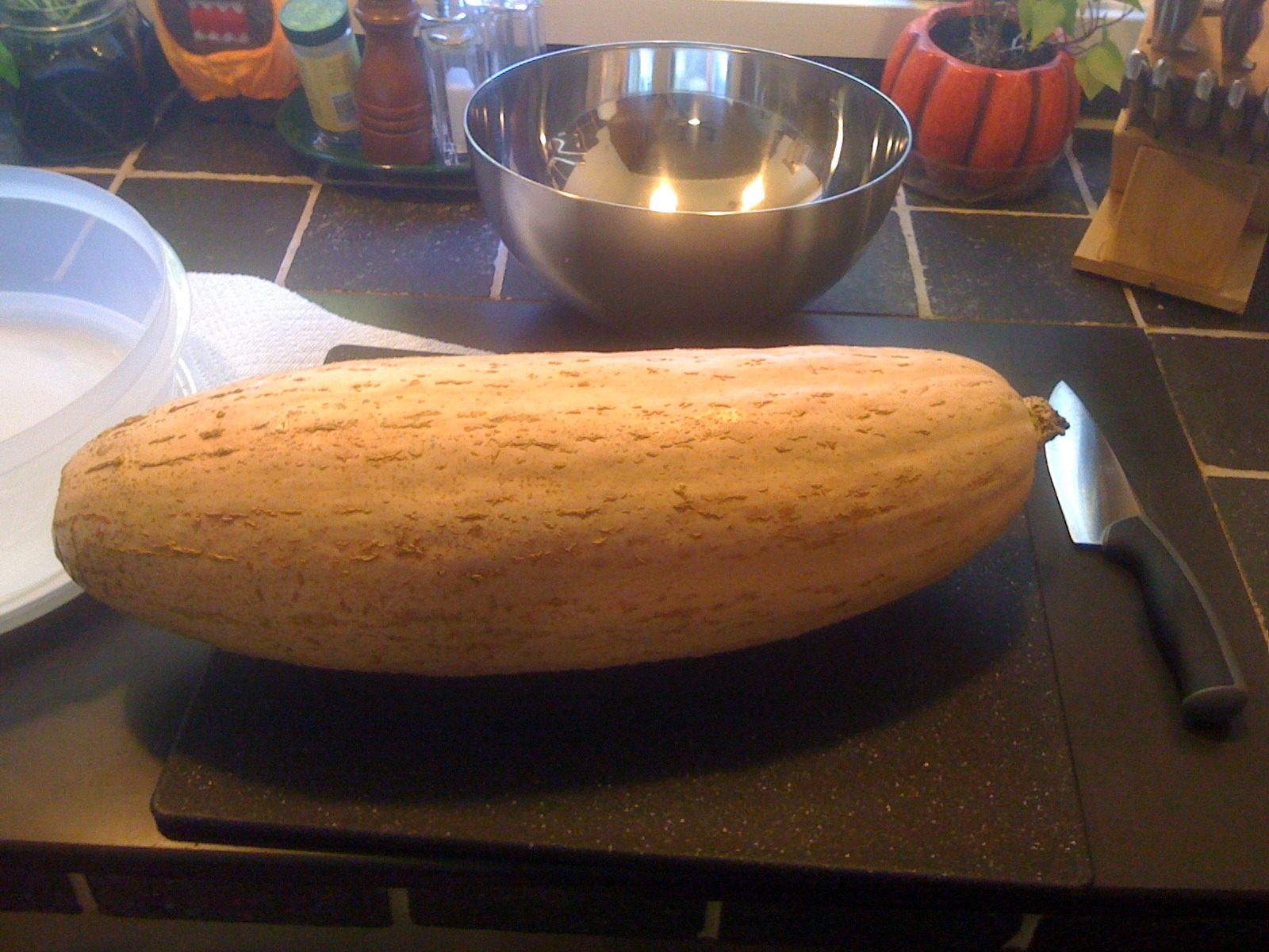 Posted via web from